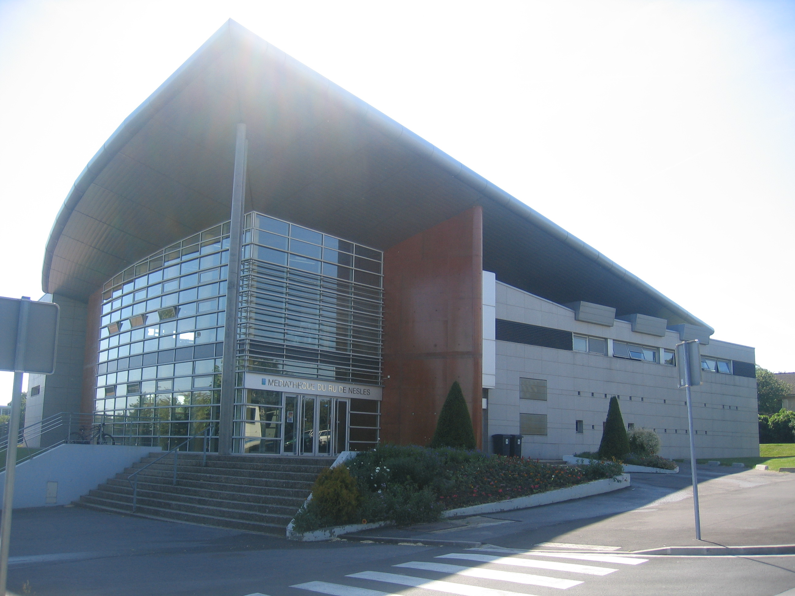 la Médiathèque du Ru du Nesles, Champs-sur-Marne (France)